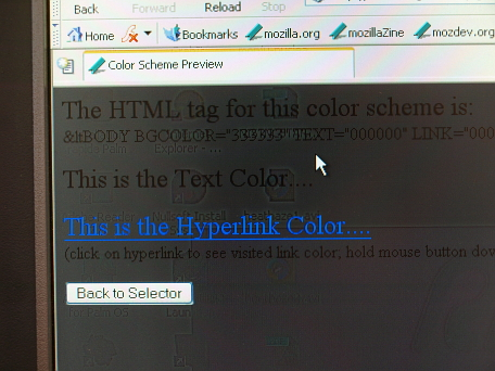 Detail of a Dell 1905FP TFT display showing whole screen persistence artifacts.